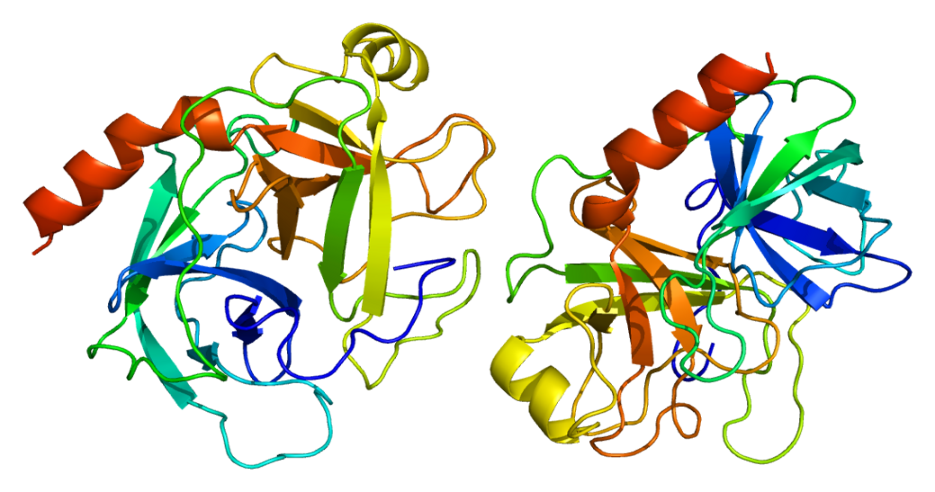 Structure of the PRSS1 protein. Based on PyMOL rendering of PDB 1trn.